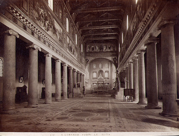 Fotografia Anderson, Rome - "Rome - Saint Lawrence outside-the-Walls church". Catalogue # 110.